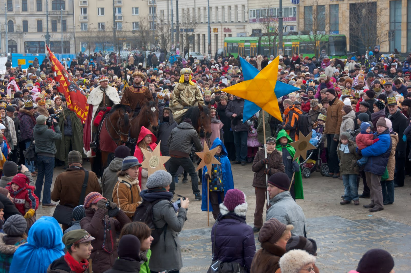 Cavalcade of Magi, Poznań, 2011